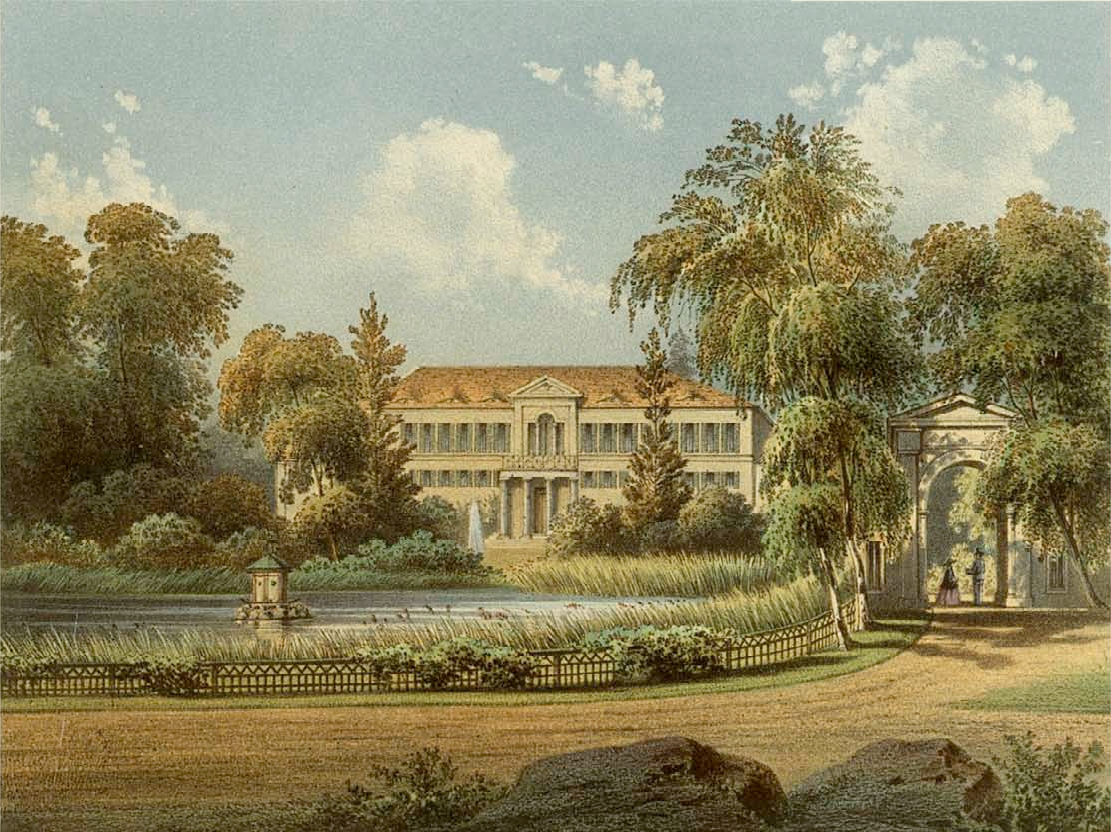 Lithograph of Owinska Castle in Poland